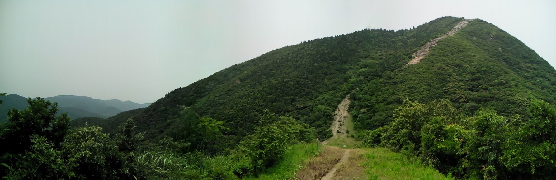 201406 Niaolongkou of Ninghai National Fitness Trail